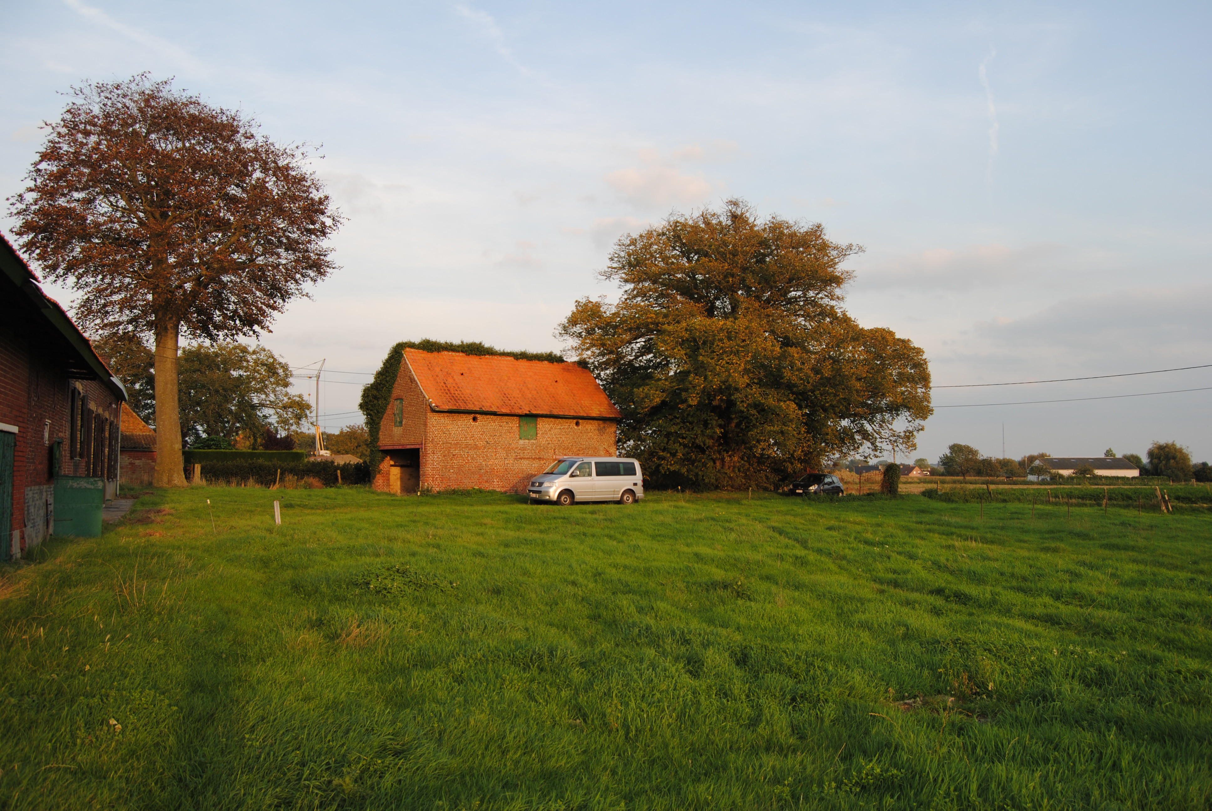 Farm De Gunst : Stable and old trees